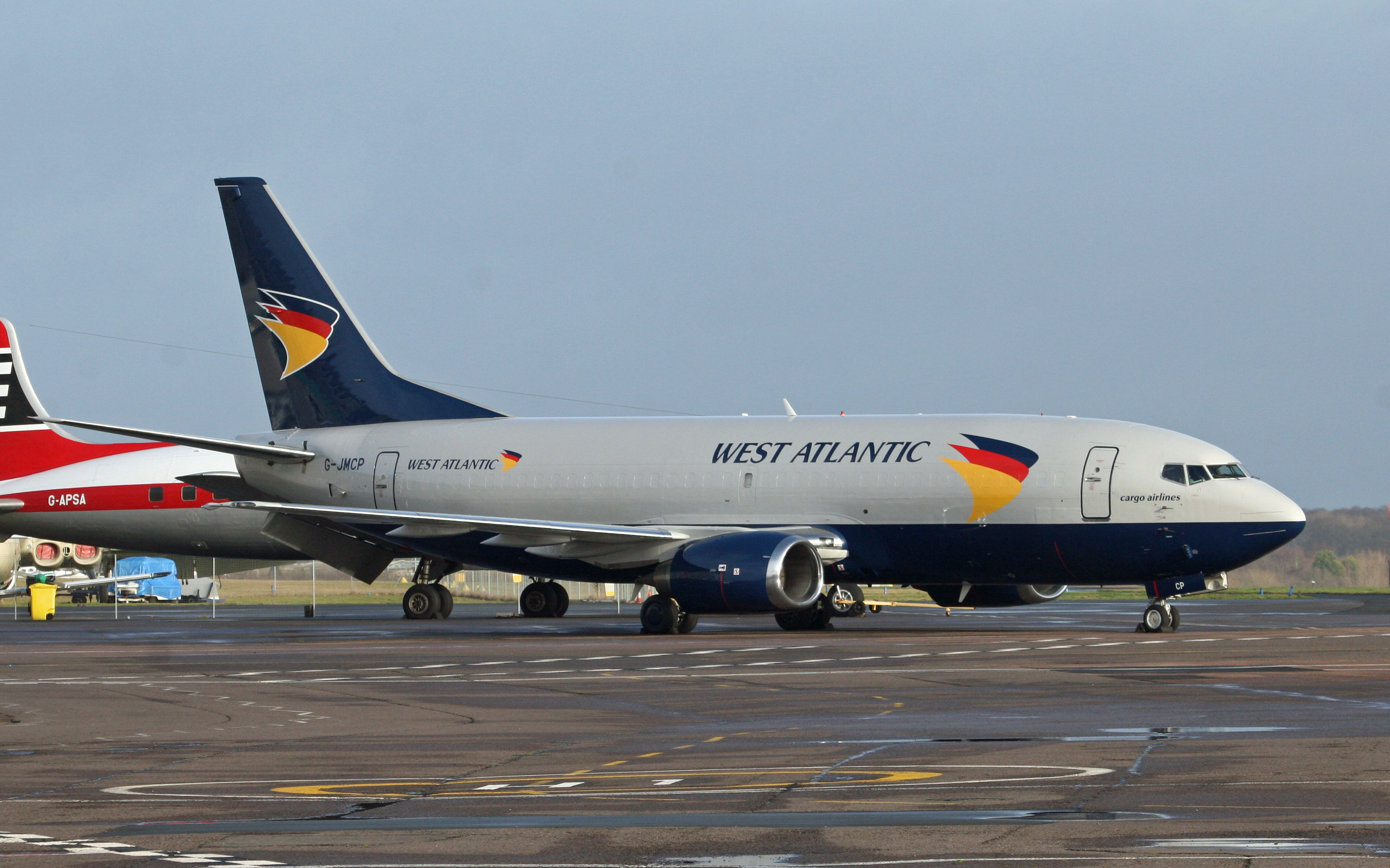 G-JMCP Boeing 737-300 West Atlantic parked on the West Apron at Coventry Airport 21-12-13